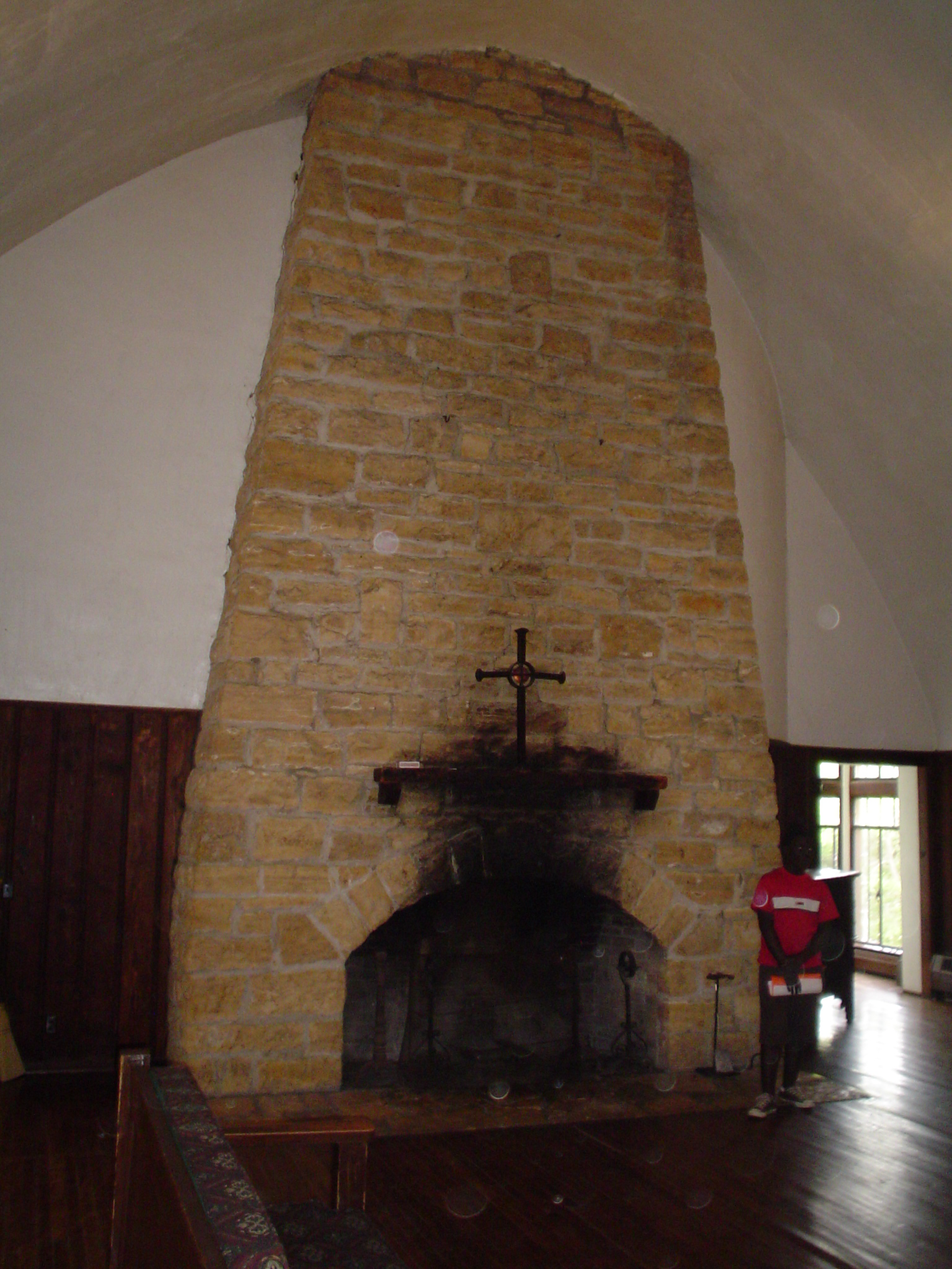 The Great Hall of Stronghold Castle, Oregon, Illinois, USA.